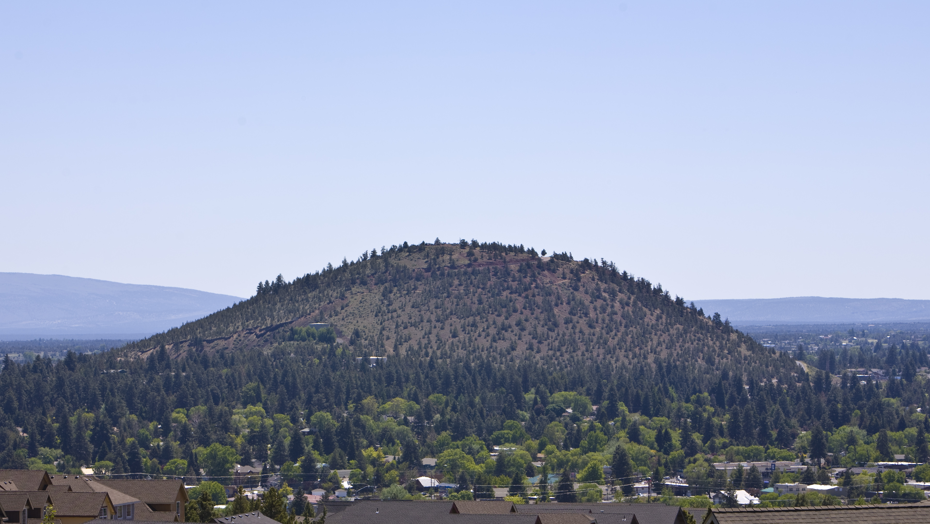 Pilot Butte State Park in Bend, Oregon. Seen from the west (Awbry Butte).